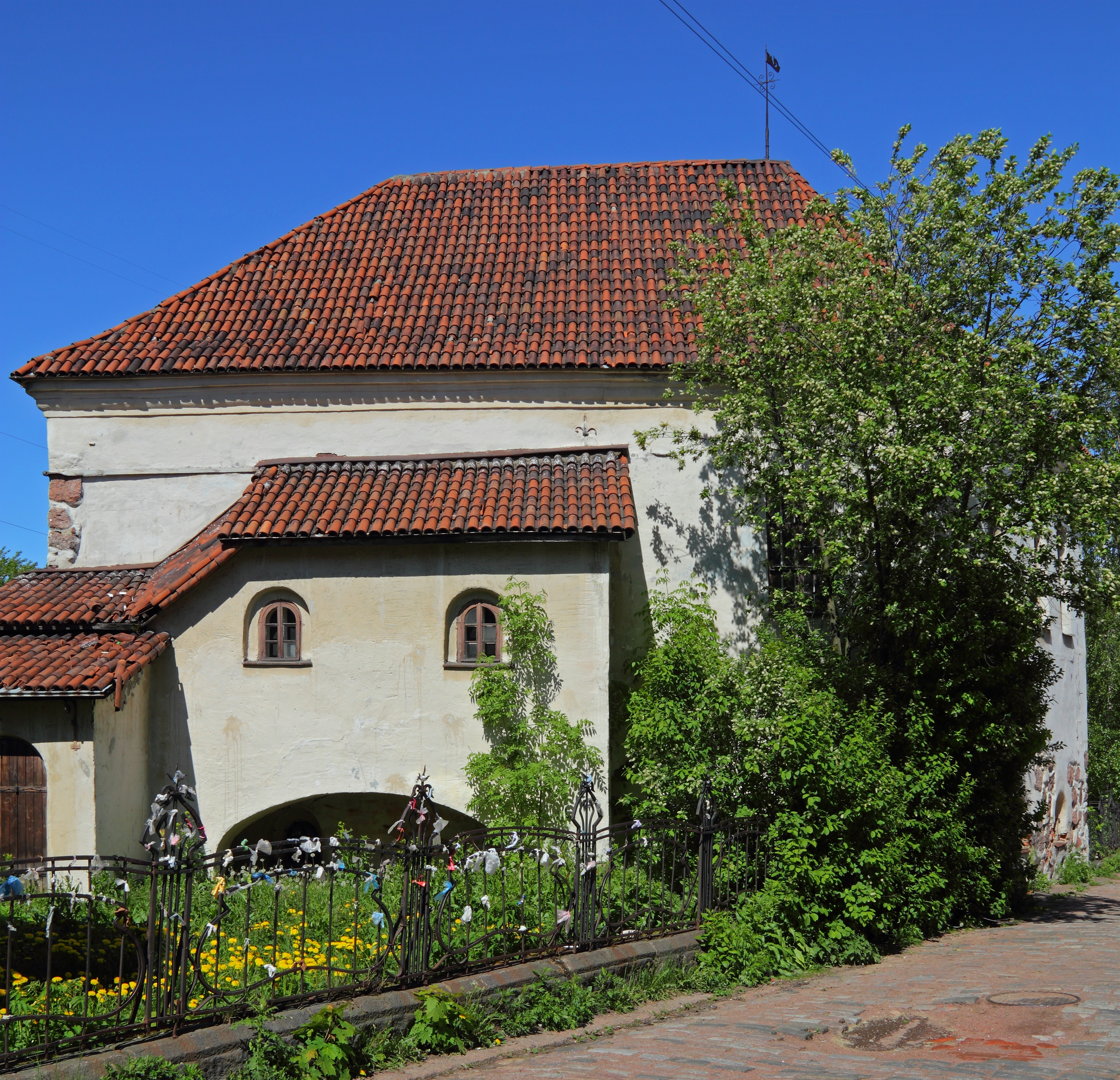 Vyborg (Viipuri), Leningrad Oblast, Russia. Knight House.